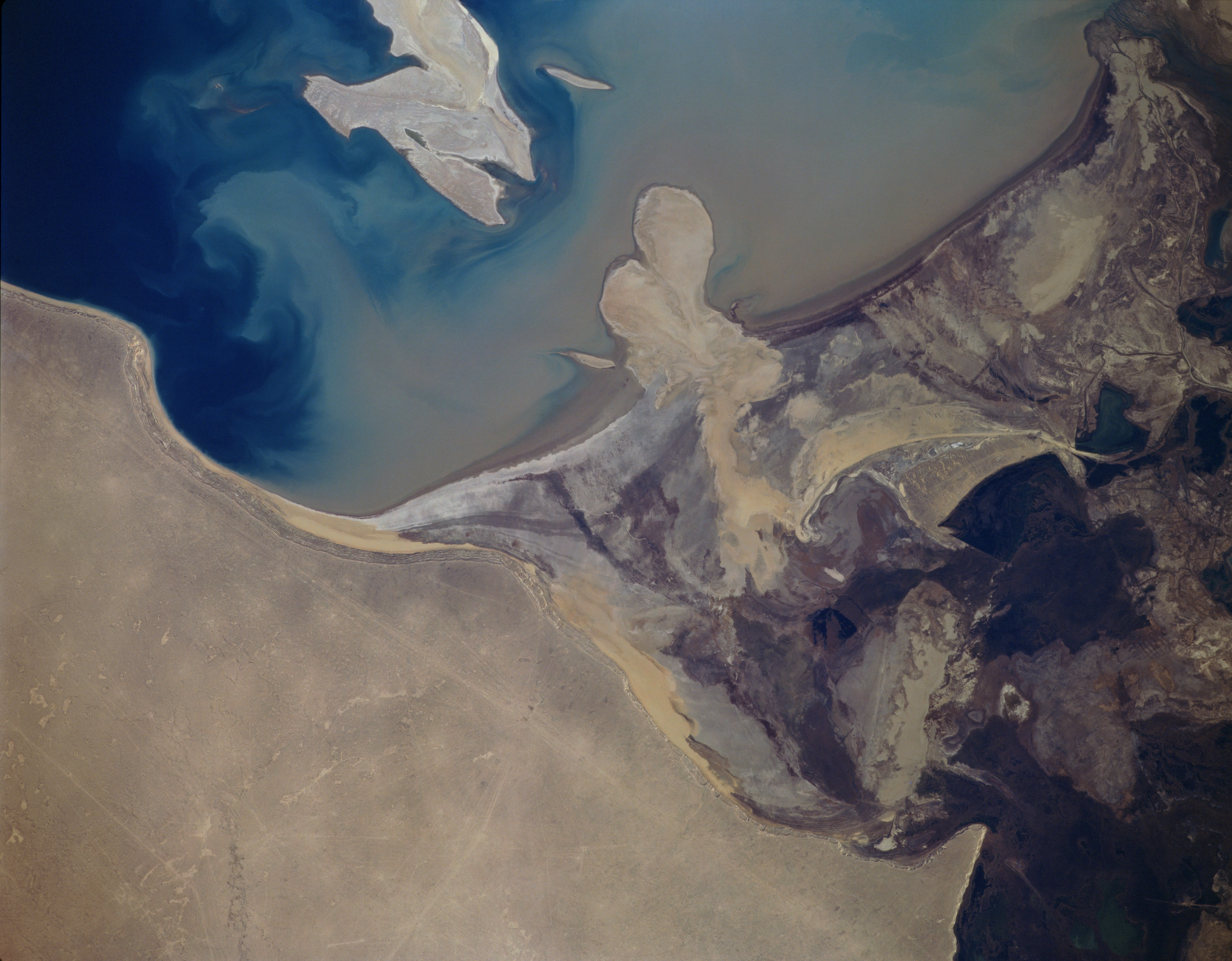 Image courtesy of Earth Sciences and Image Analysis Laboratory, NASA Johnson Space Center.